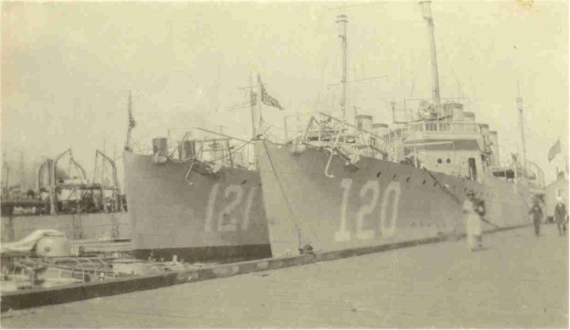 The U.S. Navy destroyers USS Radford (DD-120) and USS Montgomery (DD-121) at the Norfolk Naval Shipyard, Virginia (USA), circa in 1919-1921.